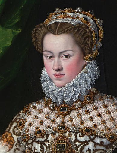 Portrait of Elizabeth of Austria (1554-1592), Queen consort of Charles IX of France.